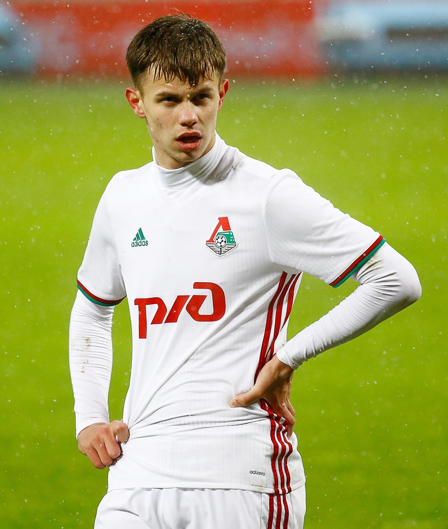 Artyom Galadzhan with FC Lokomotiv Moscow in a game against FC Ural Yekaterinburg.